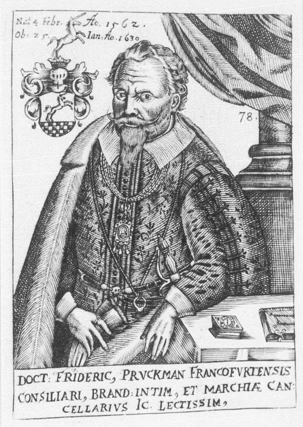 Picture of Friedrich Pruckmann, 1616 to 1630 chancellor of the prince-electors of Brandenburg